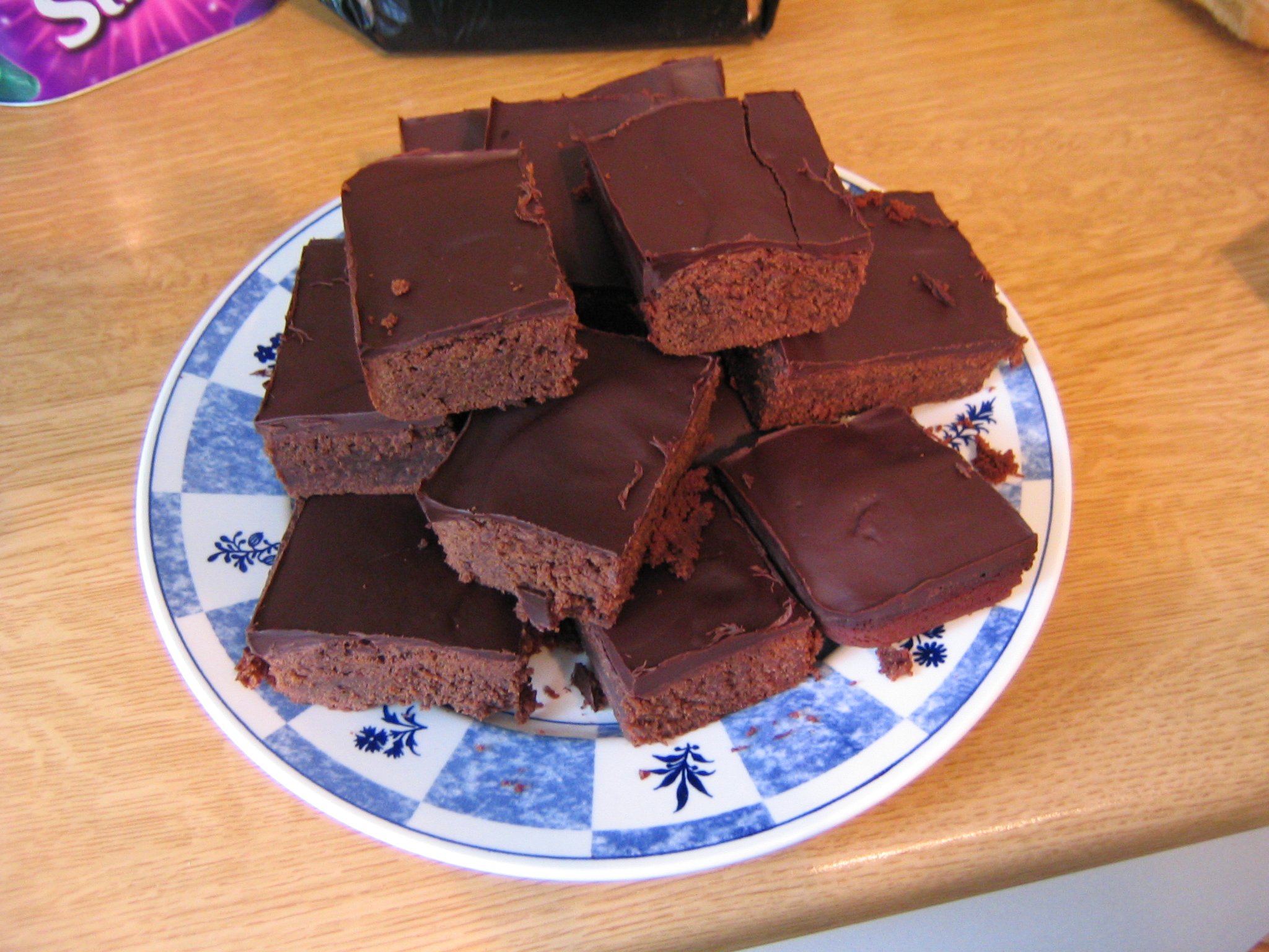 Chocolate brownies. First upload to en.wikipedia by its author